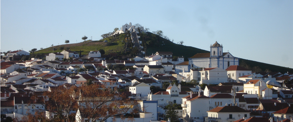 City of Aljustrel - Alentejo - Portugal